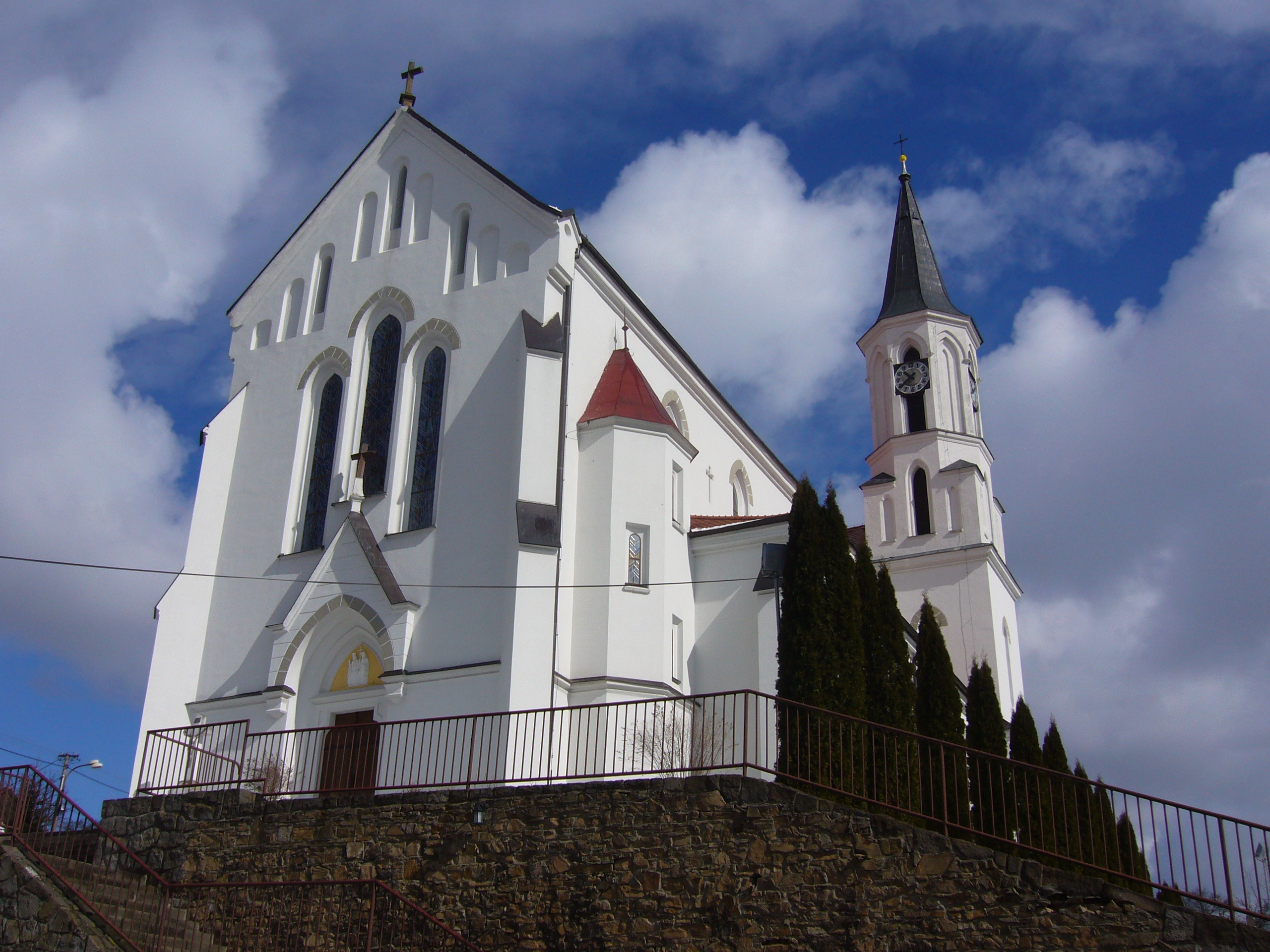 Saints Cyril and Methodius church in Březová, Uherské Hradiště District, Czech Republic